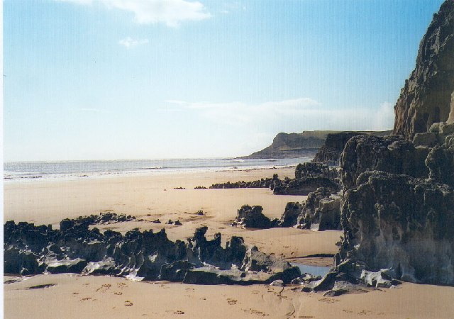 Mewslade Bay, Gower. Some fantastic natural limestone 'sculptures' here due to wave action. A beautiful beach.